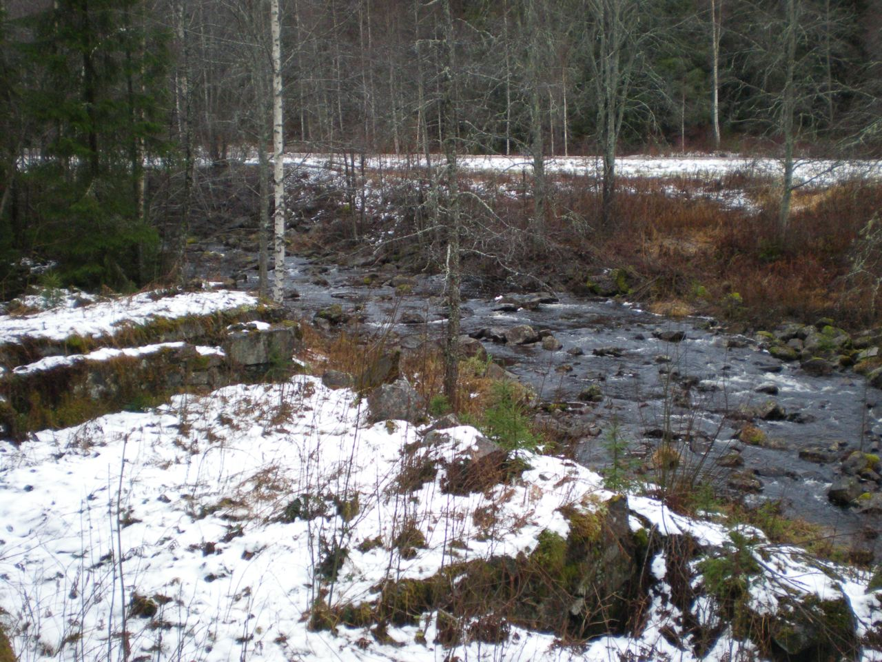 Högfors and river Kymsälven in Gräsmark